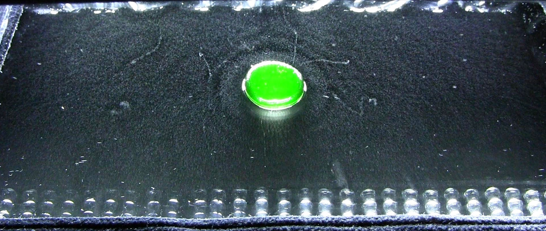 Low radioactive source can be detected in a cloud chamber. You can see some electrons escaping from the uranium glass